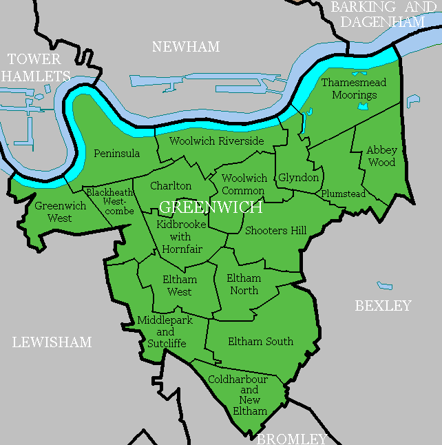 Map of the electoral wards of the London Borough of Greenwich.